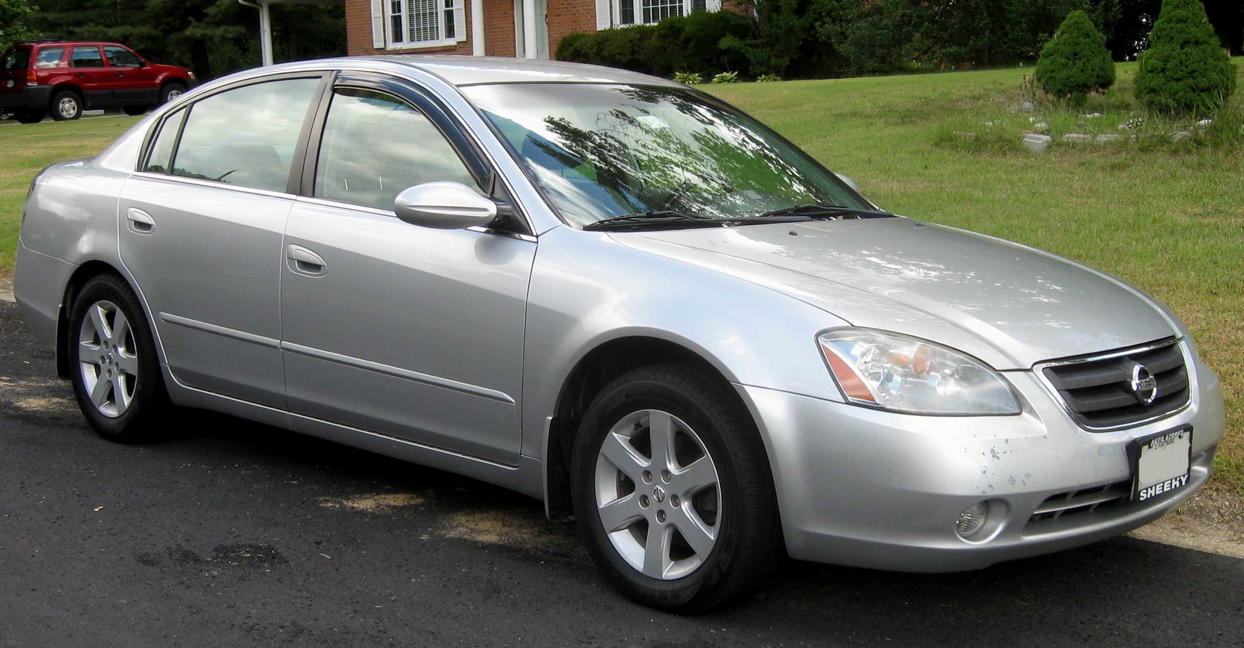 2002-2004 Nissan Altima photographed in Waldorf, Maryland, USA.